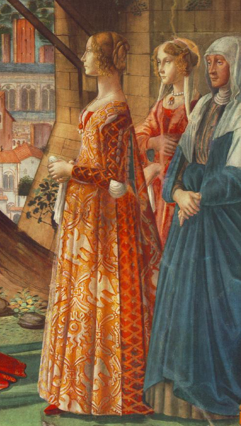 Giovanna Tornabuoni and attendants, detail of The Visitation in the Tornabuoni chapel in Santa Maria Novella church in Florence. Previosly, according to Vasari, was belived that it is Ginevra Benci